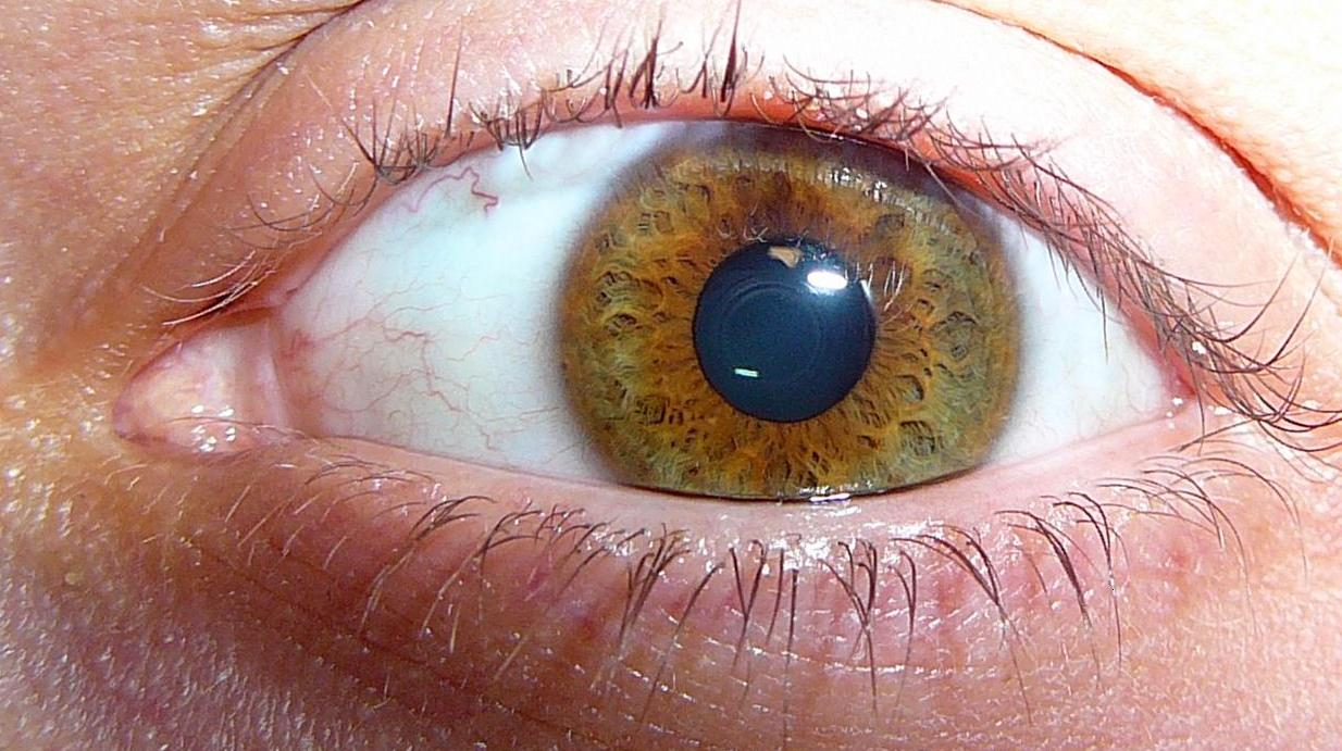 Left eye showing muscle surrounding the pupil. Brown/Green Iris.